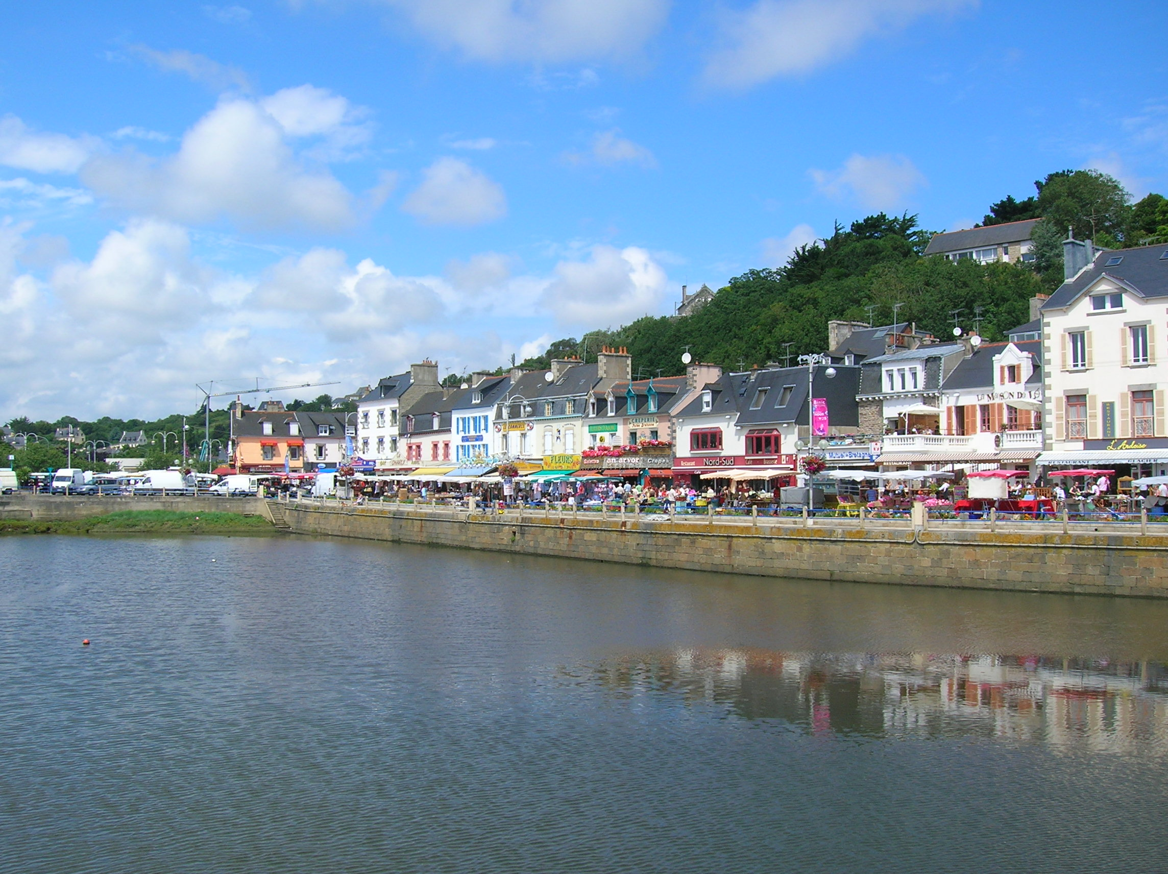 Binic, Côtes d'Armor, France : quai principal, partie sud (South end of the main quay)